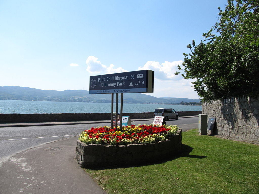 Entrance sign to Pairc Chill Bhronai/Kilbroney Park, Rostrevor